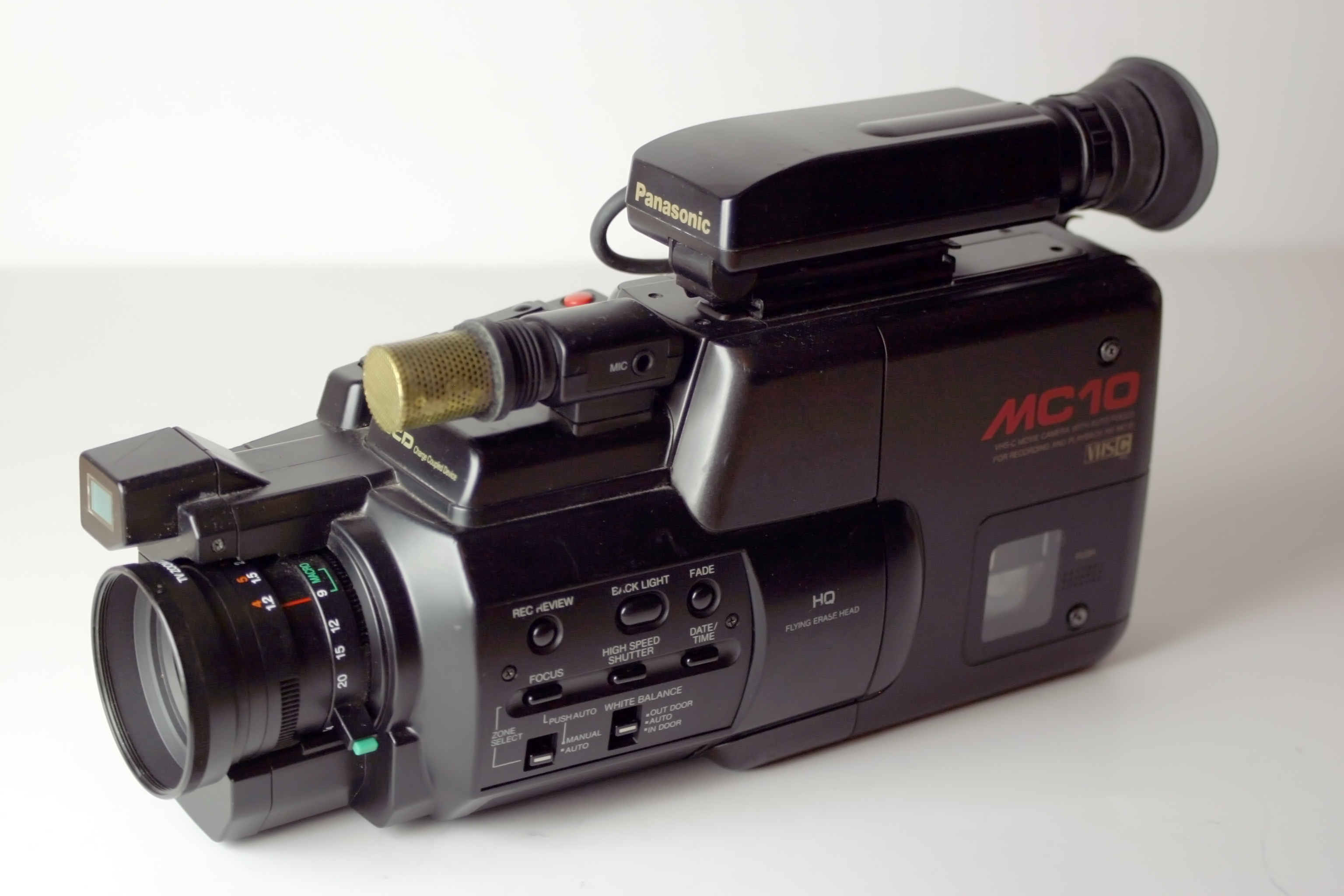 Panasonic MC-10 VHS-C camcorder.